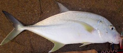 Caranx papuensis, Darwin